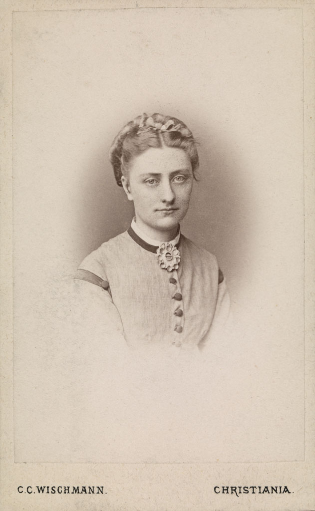 Tittel / Title: Portrett av Gina Krog, ca 1873 Motiv / Motif: Visittkort. Dato / Date: ca 1873 Fotograf / Photographer: C. C. Wischmann (Christiania) Sted / Place: Oslo Eier / Owner Institution: Nasjonalbiblioteket / National Library of Norway Lenke / Link: Bildesignatur / Image Number: blds_04029